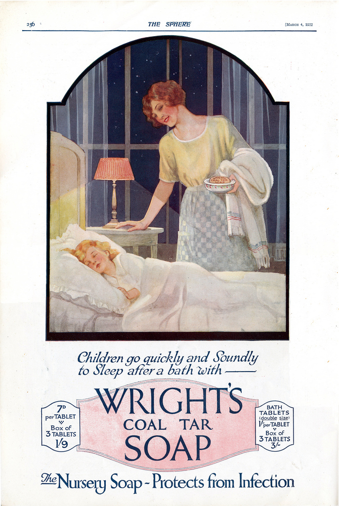 Wright's Coal Tar Soap Ad, Child asleep near mother, 1922